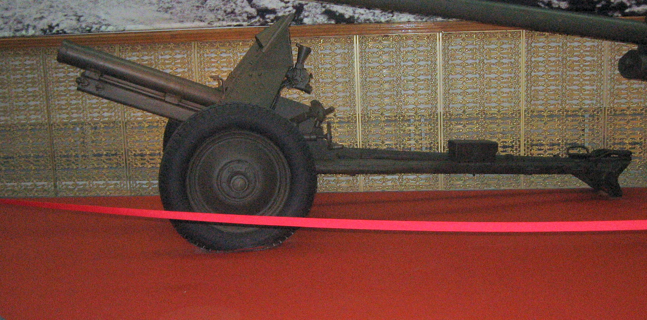 76.2-mm regimental gun M1943 displayed in Central museum of the Great Patriotic War (Moscow)